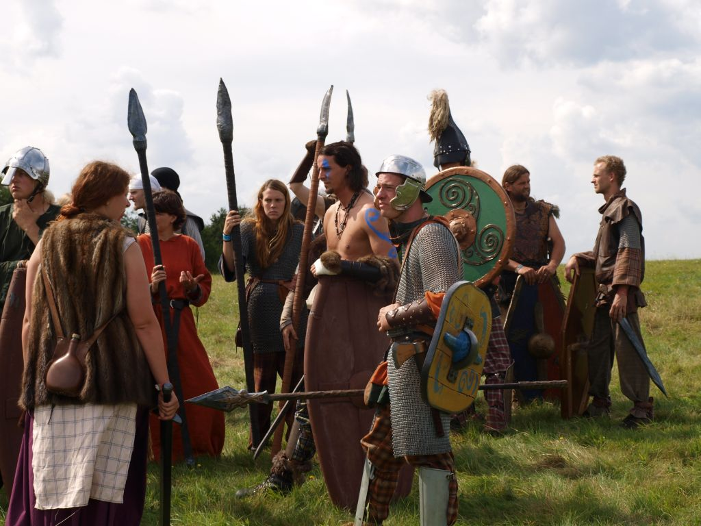 Life Action Role Playing (LARP)